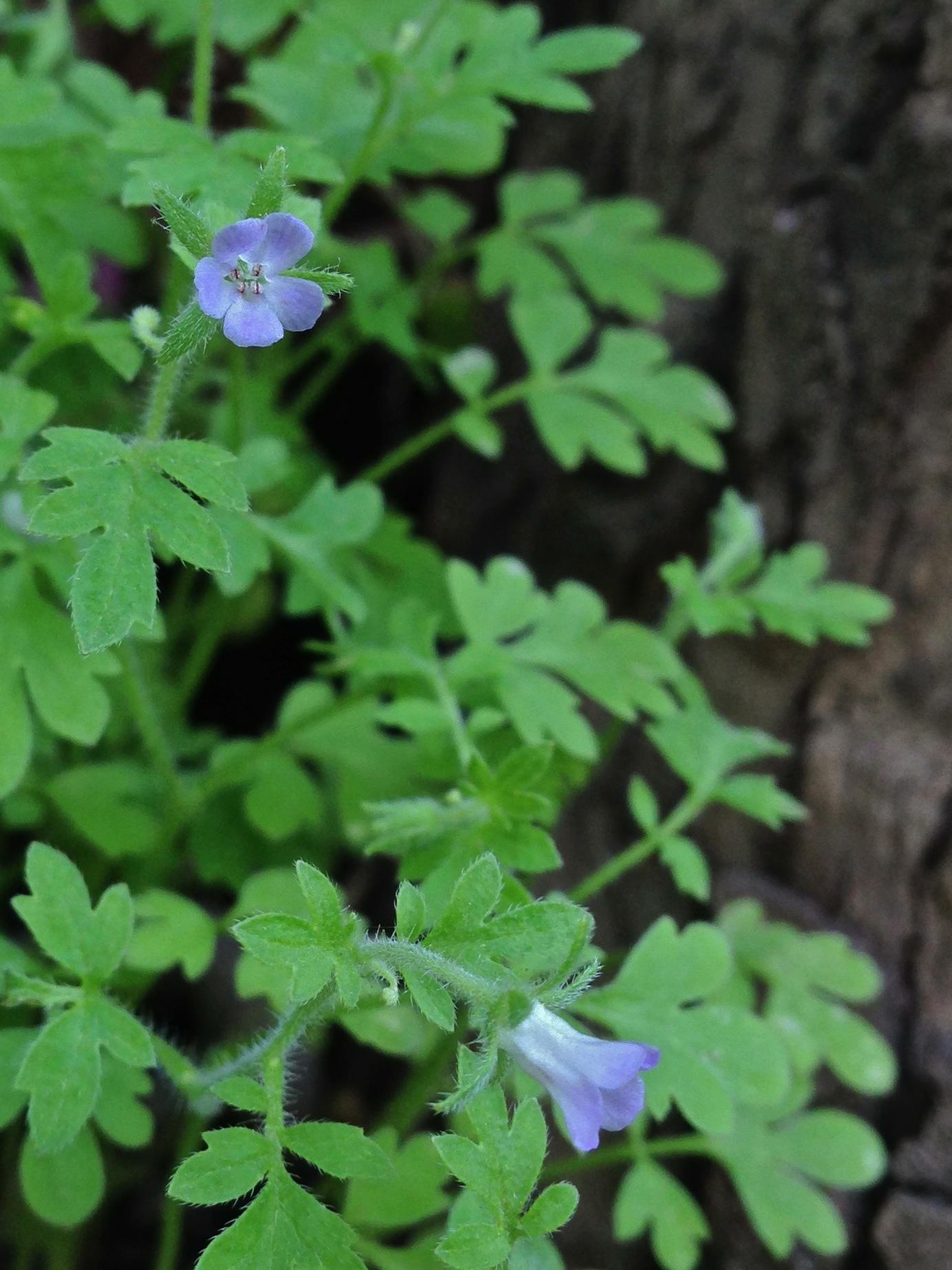 Photograph of Phacelia covillei in flower. This a native plant growing wild in a floodplain forest habitat near the Potomac river, in the C & O Canal National Historic Park, in Montgomery county, Maryland, USA. This species is in the Boraginaceae family.